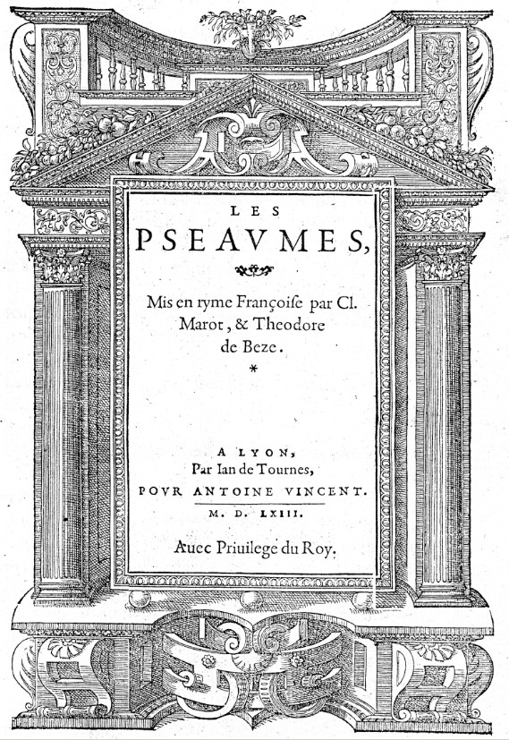 Title page of the edition of the huguenot psalms by Jean de Tournes (Lyons, 1563).